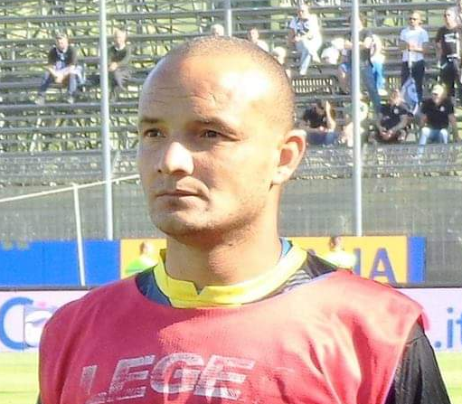 Massimo Zappino, Frosinone football player